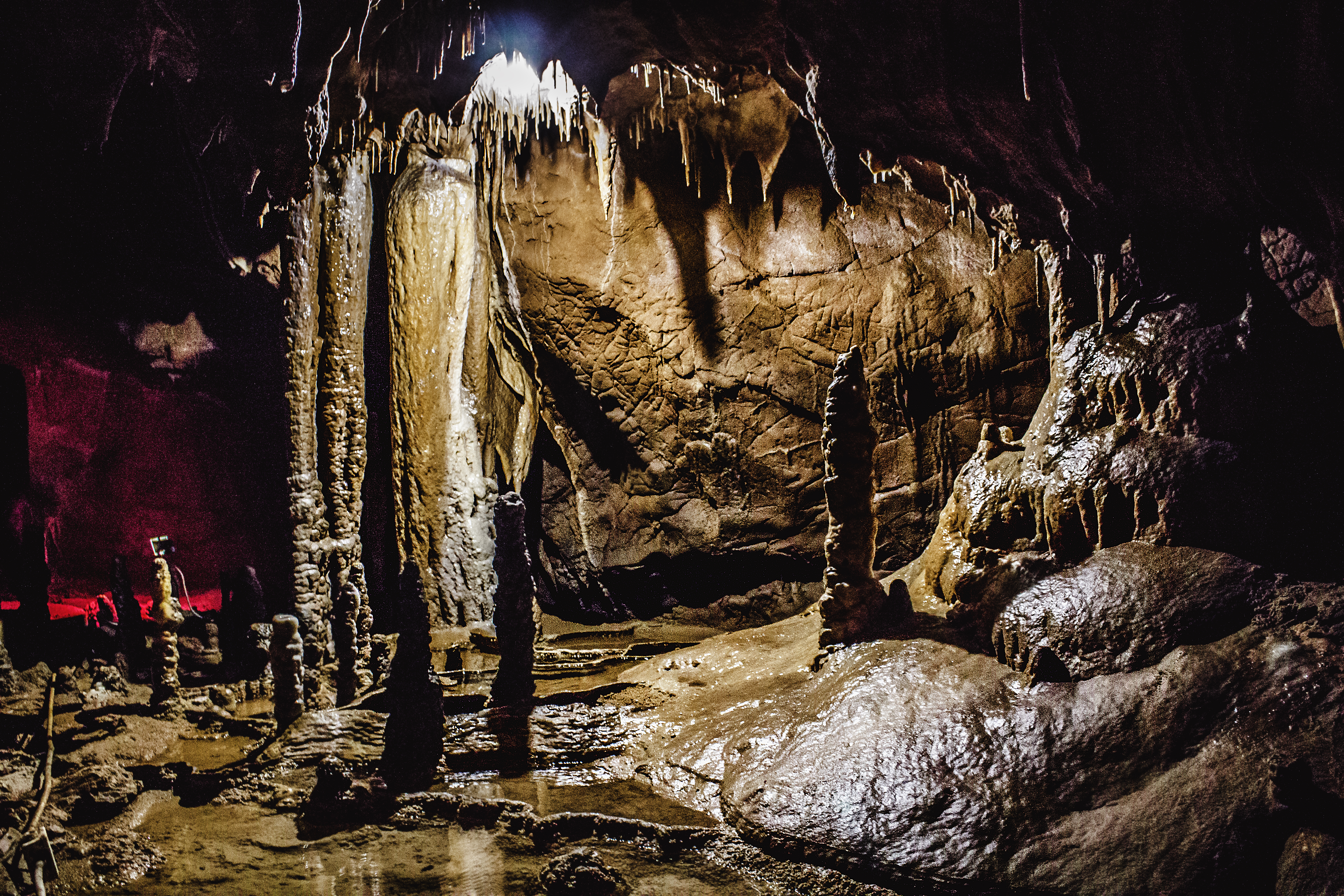 Jedan od prelepih detalja iz pećine Orlovača nadomak Pala